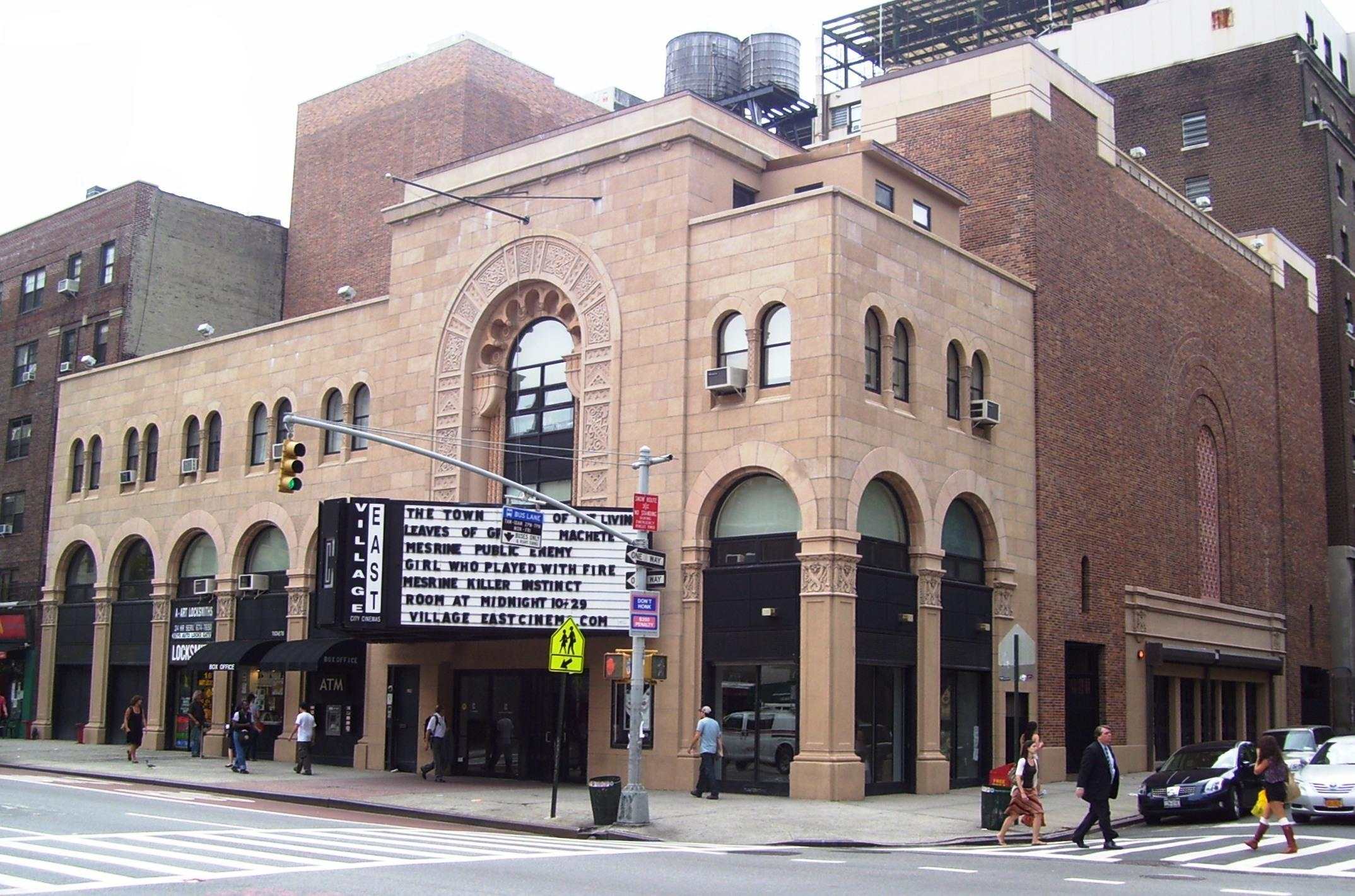 The Village East movie theatre on Second Avenue and 12th Street in the East Village, Manhattan, New York City, was formerly the Yiddish Art Theatre, the Phoenix, and the Louis N. Jaffe Theater. It was built in 1925-1926 and was designed by Harrison G. Weisman to resemble a "Semitic"-style synagogue. Second Avenue in the early 20th Century was known as the "Jewish Rialto" due to the large number of Yiddish theatres in the area. This theatre was built by developer Louis N. Jaffee for the actor Maurice Schwartz, who was known as "Mr. Second Avenue". It has been a New York City landmark since 1993. (Sources: AIA Guide to NYC 4th ed. and Guide to NYC Landmarks 4th ed.)